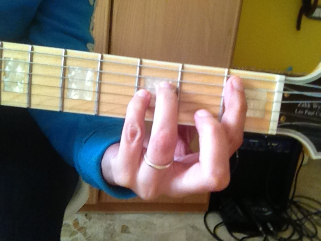 Power chord root on 5th string